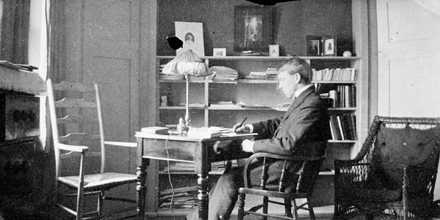 W.L. Mackenzie King studying as an undergraduate at the University of Toronto